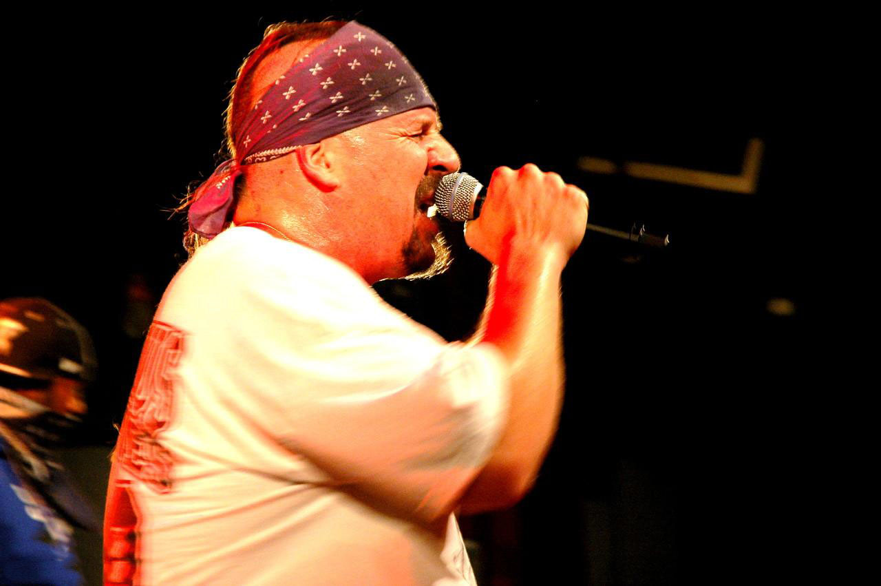 Picture taken by ST-Math!eu in Strasbourg France during Infectious Grooves 2008 European Tour.